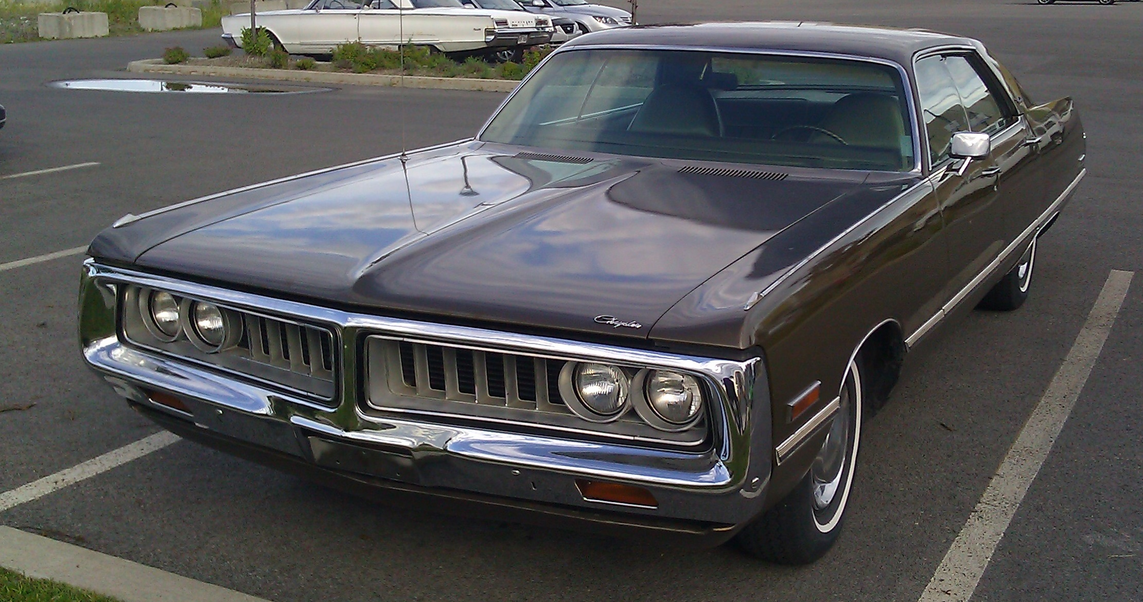 1972 Chrysler Newport Custom photographed in Laval, Quebec, Canada at Les chauds vendredis.